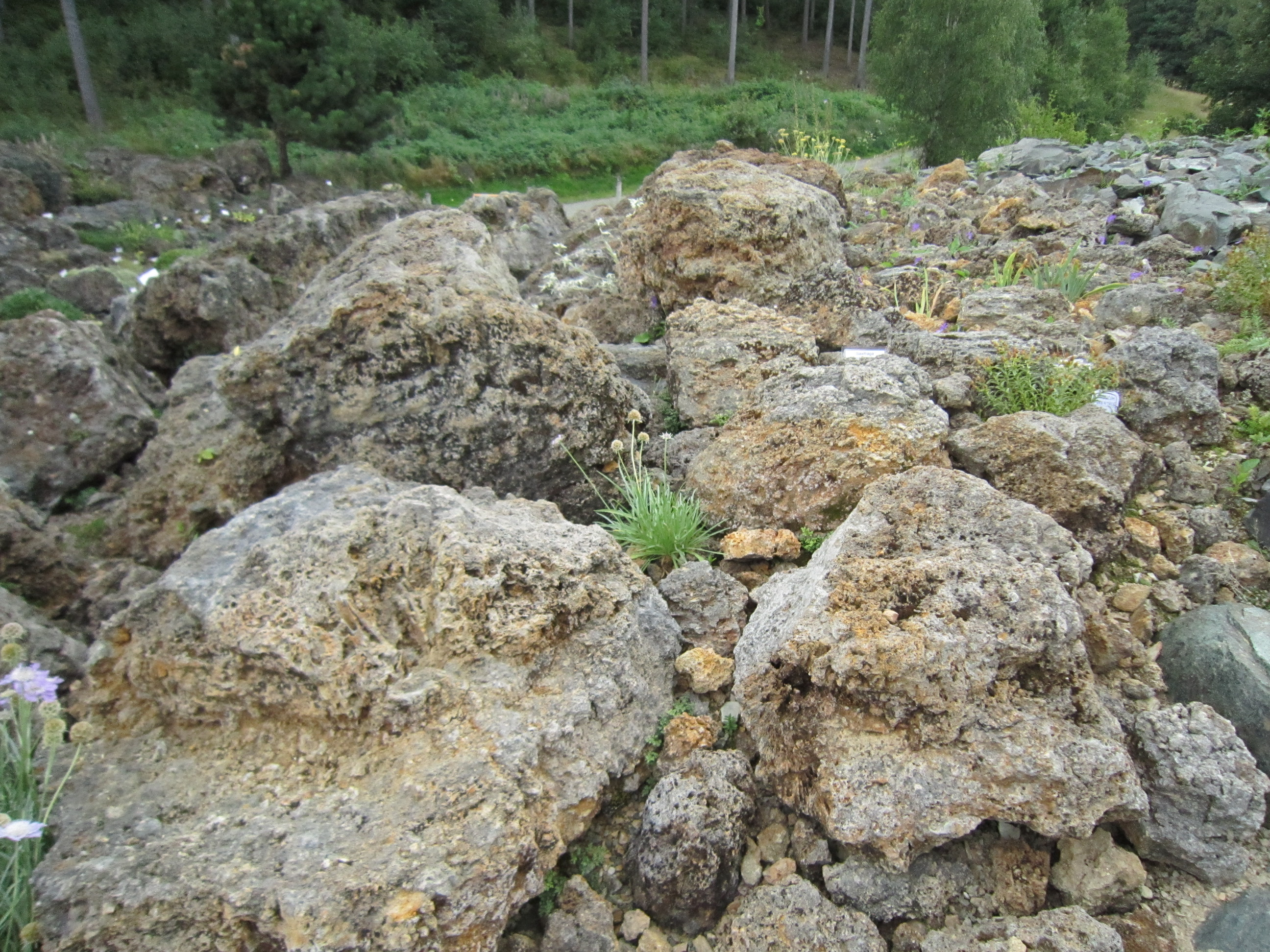 Botanic garden in Adorf (Vogtland)